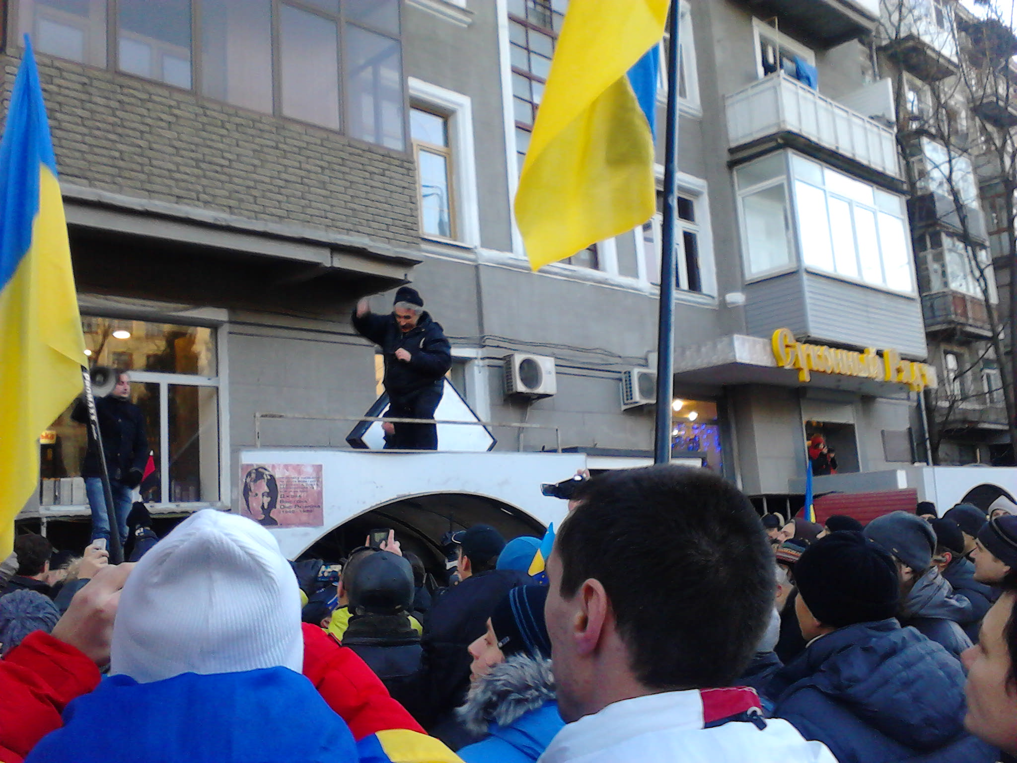 Euromaidan, Kharkiv, December 22, 2013